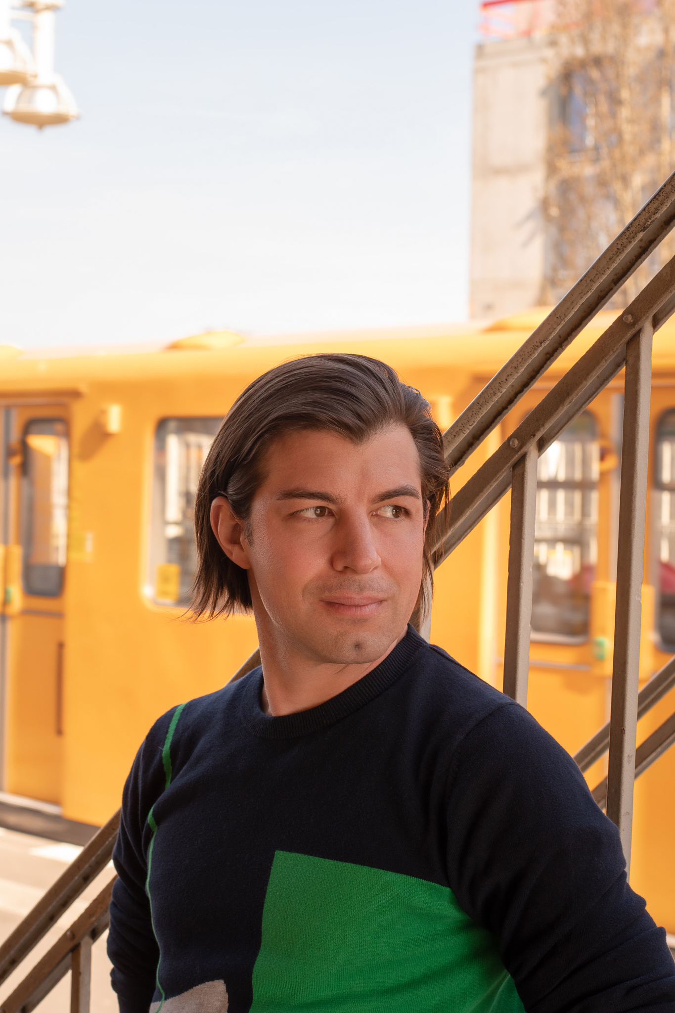 Andreas Kaplan, Professor of Marketing and Social Media / Dean and Rector of ESCP Europe